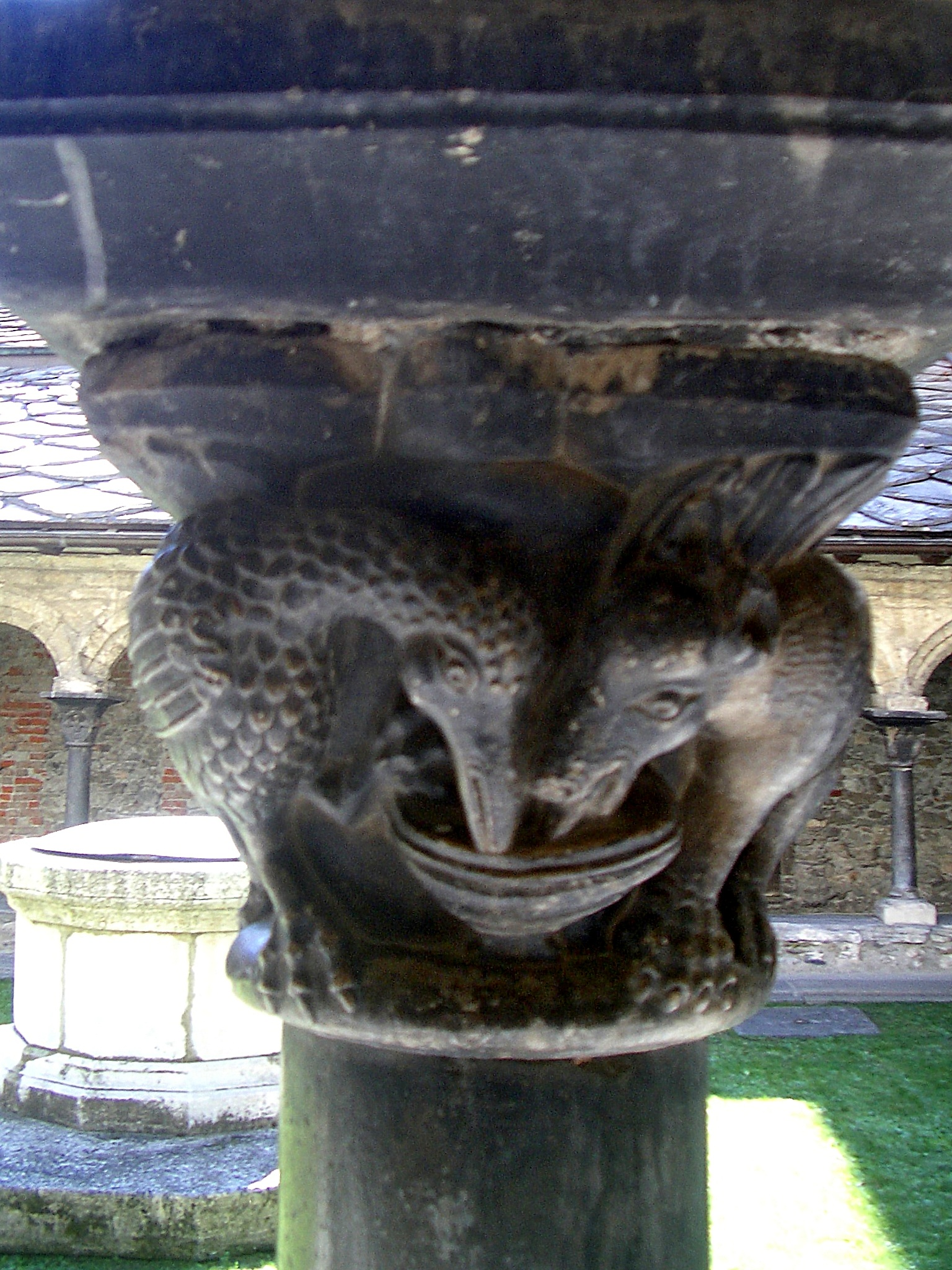 Aosta, cloister of "Collegiata di Sant'Orso", XII century, romanesque capital with a scene of the Aesop’s fable, The Fox and the Stork